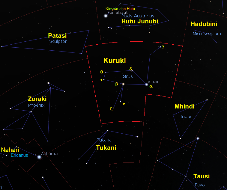 Constellation Grus as seen from Tanzania, Swahili labelled Kiswahili: Kiswahili: Kundinyota Kuruki (Grus) jinsi inavyoonekana kutoka Tanzania, majina kwa Kiswahili